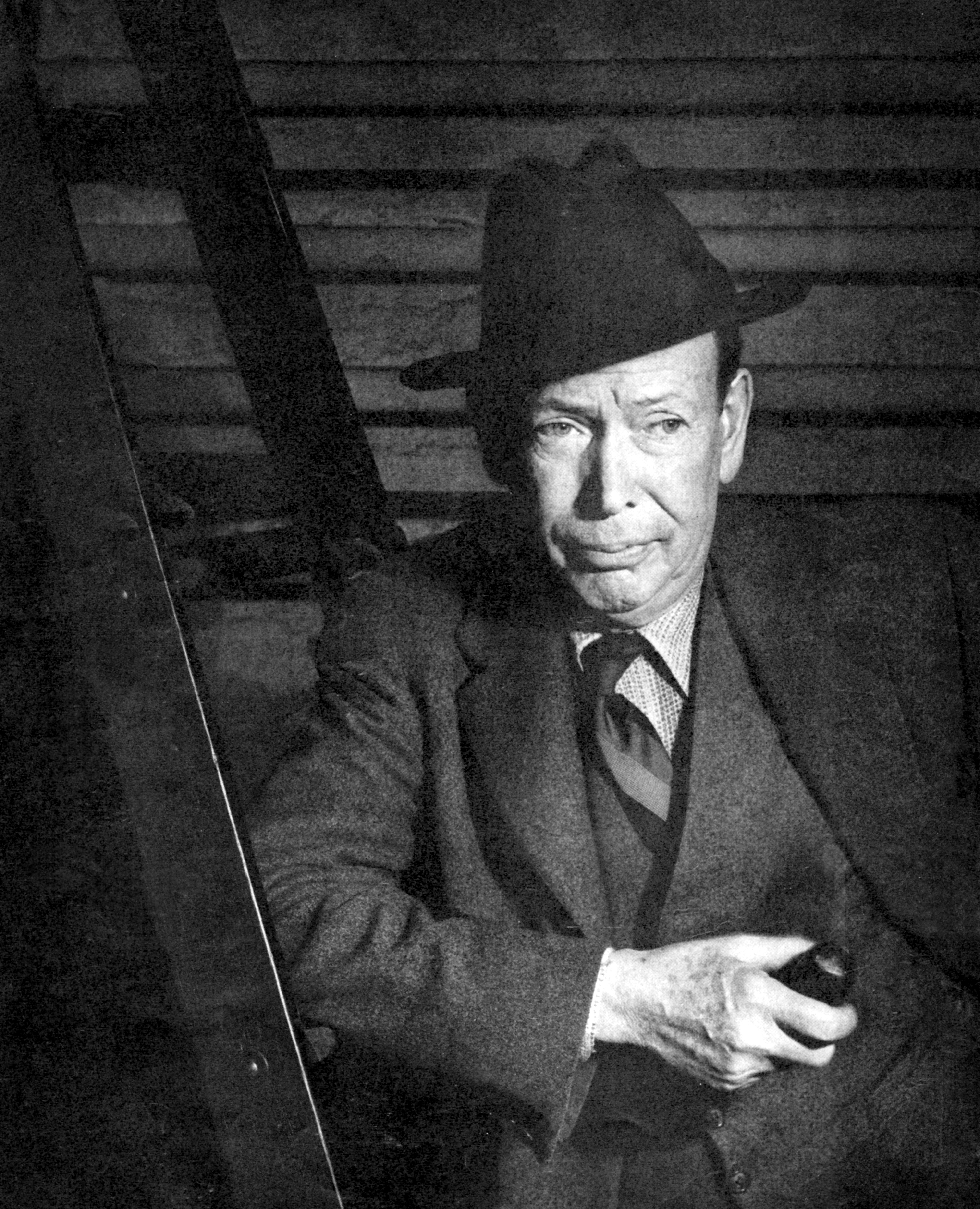 Photograph of Frank Craven in Our Town, cited for excellence in the theatre by Stage magazine Caption reads as follows: Because this was the year that Frank Craven came out on the dim, empty stage of the Henry Miller Theatre one night, leaned on the proscenium arch, looked at his watch, looked at the audience, lit his pipe, stuck his hand in his pocket, and said, simply, "This play is called Our Town. It was written by Thornton Wilder …" Because at that moment we were introduced to one of the wisest, rarest characters and one of the wisest, rarest plays in the history of the theatre.